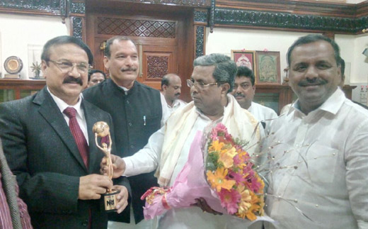 felicitation of colaco